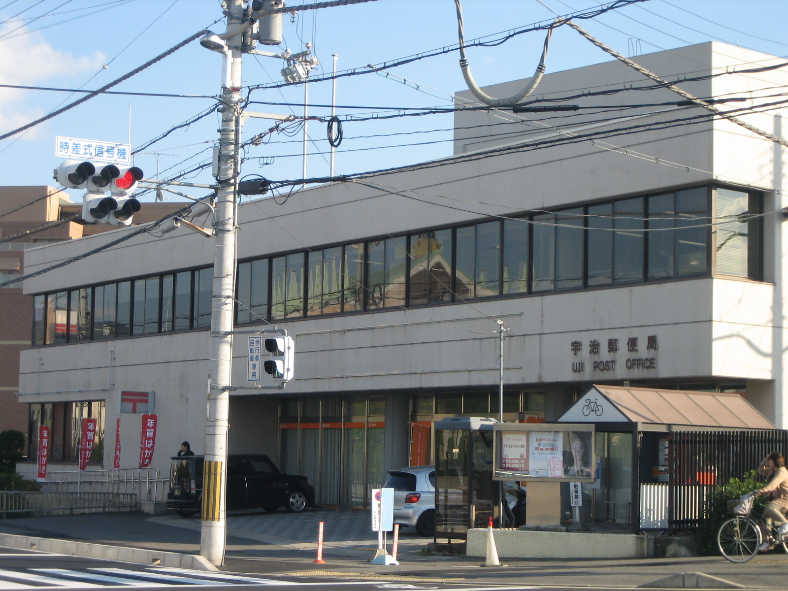 Uji post office in Kyoto, Japan